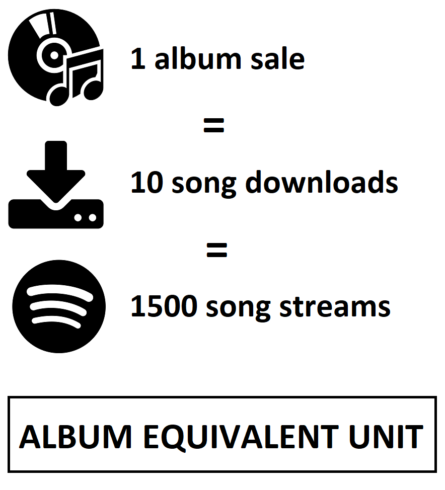 The visual representation of the album-equivalent, as implemented by the Recording Industry Association of America (RIAA) and Billboard.